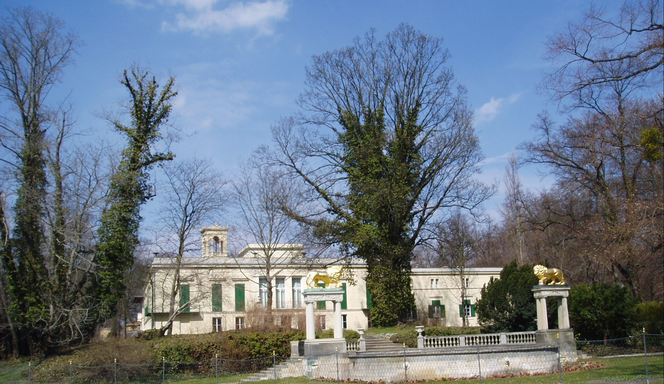 Glienicke castle (south side), Berlin, Germany